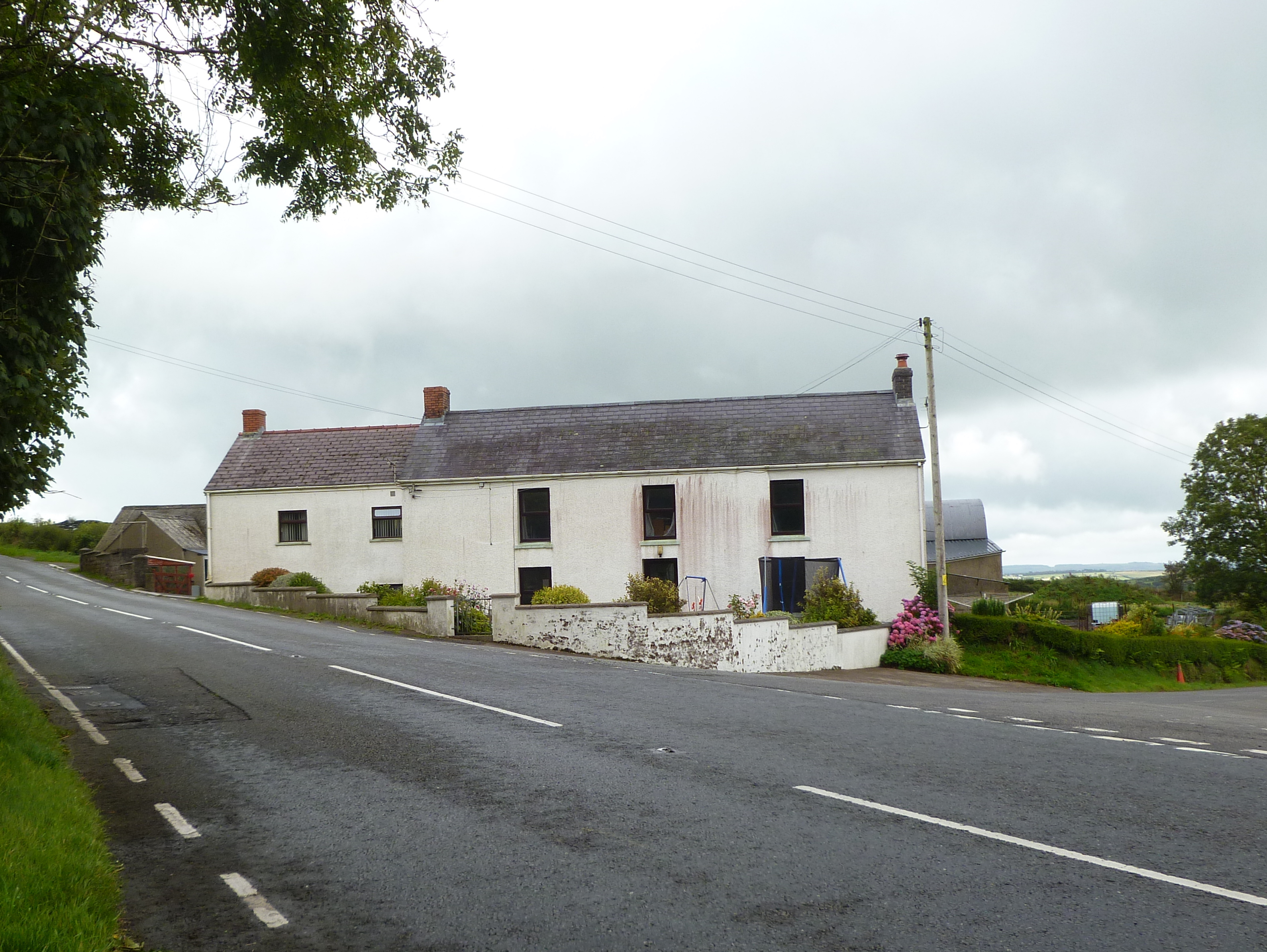 Ty Mawr former inn on the A478 at Pentre Galar, 2 miles S of Crymych, Pembrokeshire. The minor road beside it leads to Hermon and Llanfyrnach.